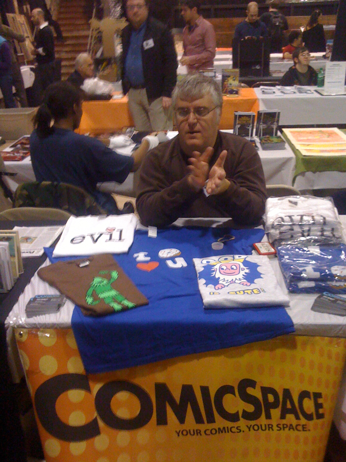 Joey Manley sitting at a ComicSpace booth at King Con in 2009.